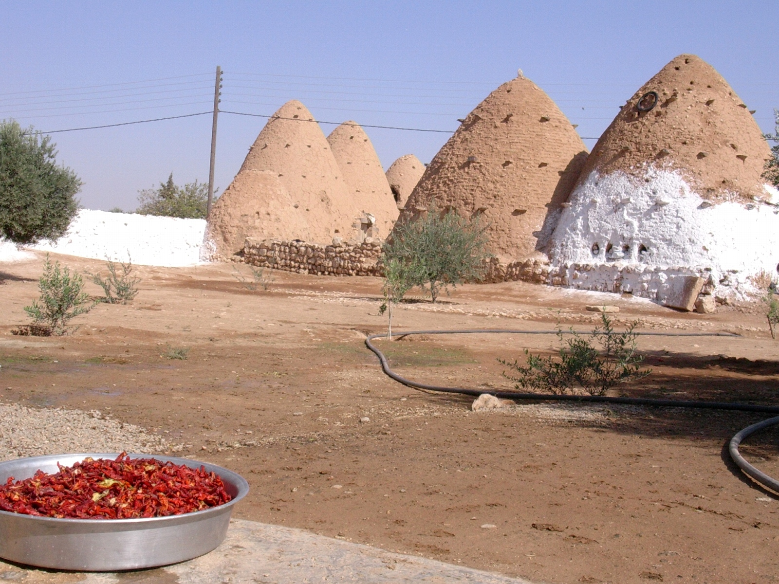 Beehive Houses